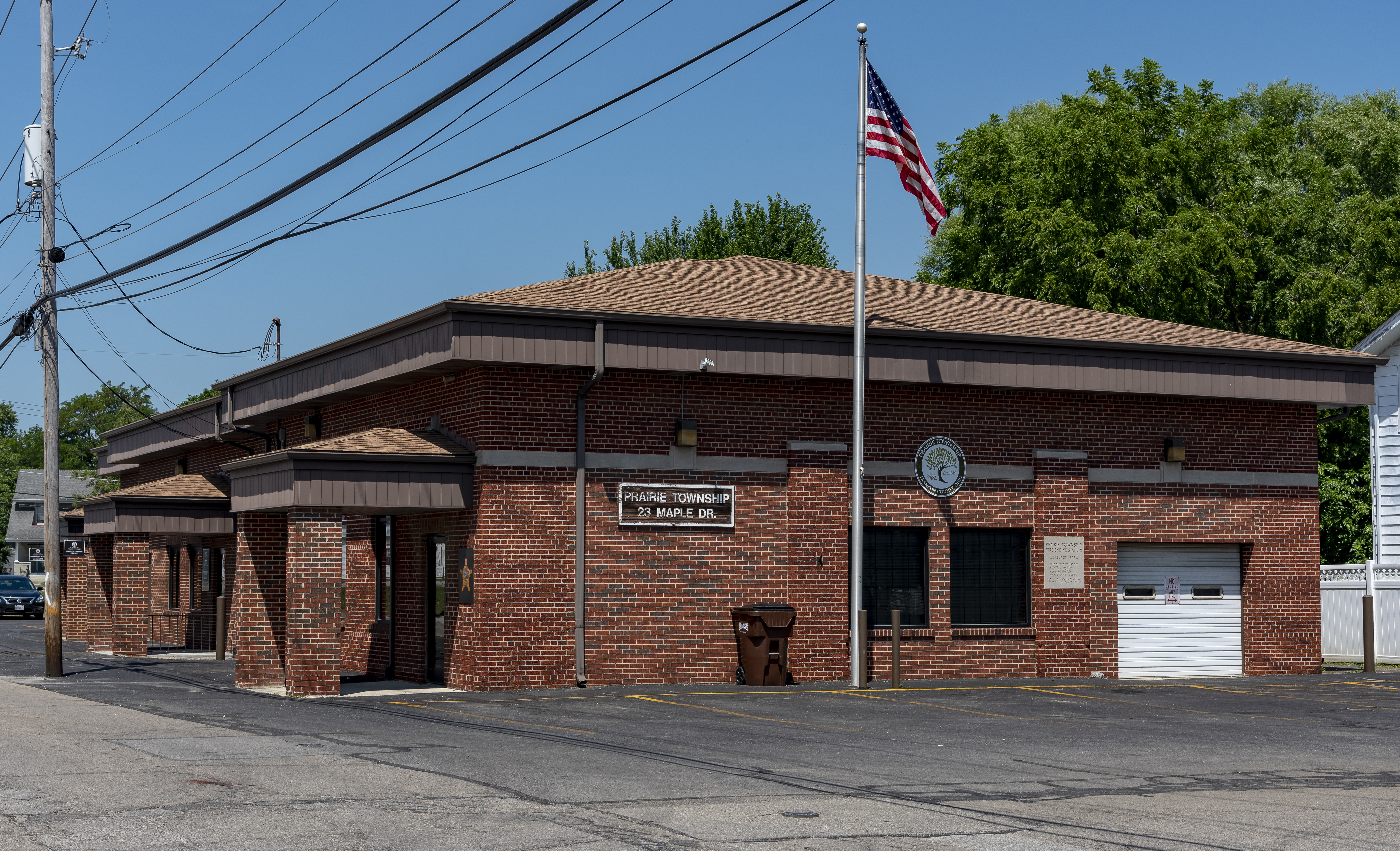 The Prairie Township administrative center serves as the township administrative center, main law enforcement office, and fire department headquarters.